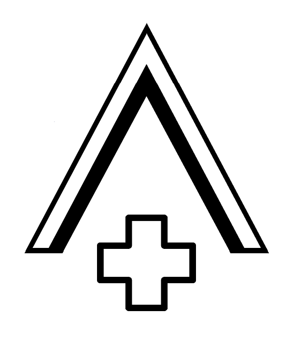 Insignia of the Balti pataljon / Batlenregiment that participated in the Estonian War of Independence